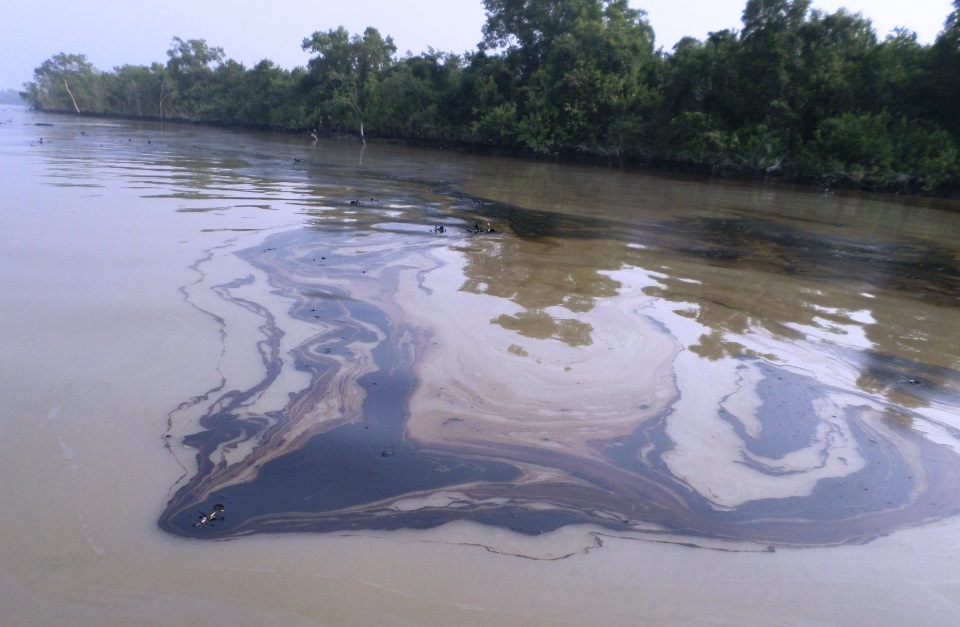 Spilt oil in Sundarban